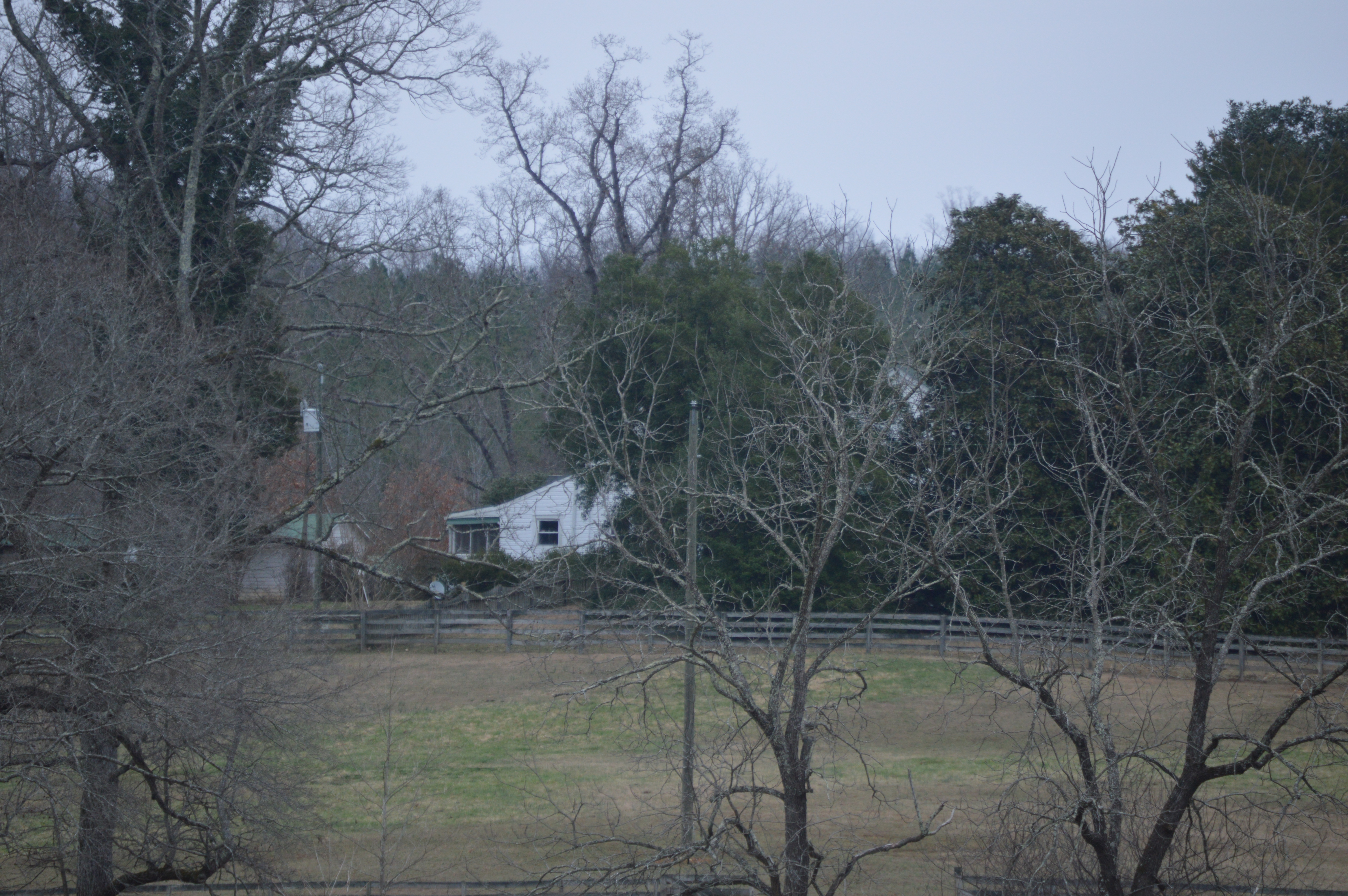 Outbuildings at the Buckshoal Farm complex, located off Hudson Road southeast of South Boston in Halifax County, Virginia, United States. The complex is listed on the National Register of Historic Places.